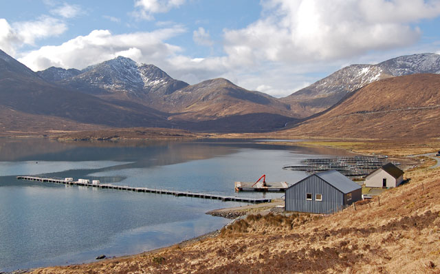 Cairidh Salmon Farm jetty The buildings and jetty that service the salmon farm on Loch Ainort. The background mountains are Garbh-bheinn, on the left, and Marsco.